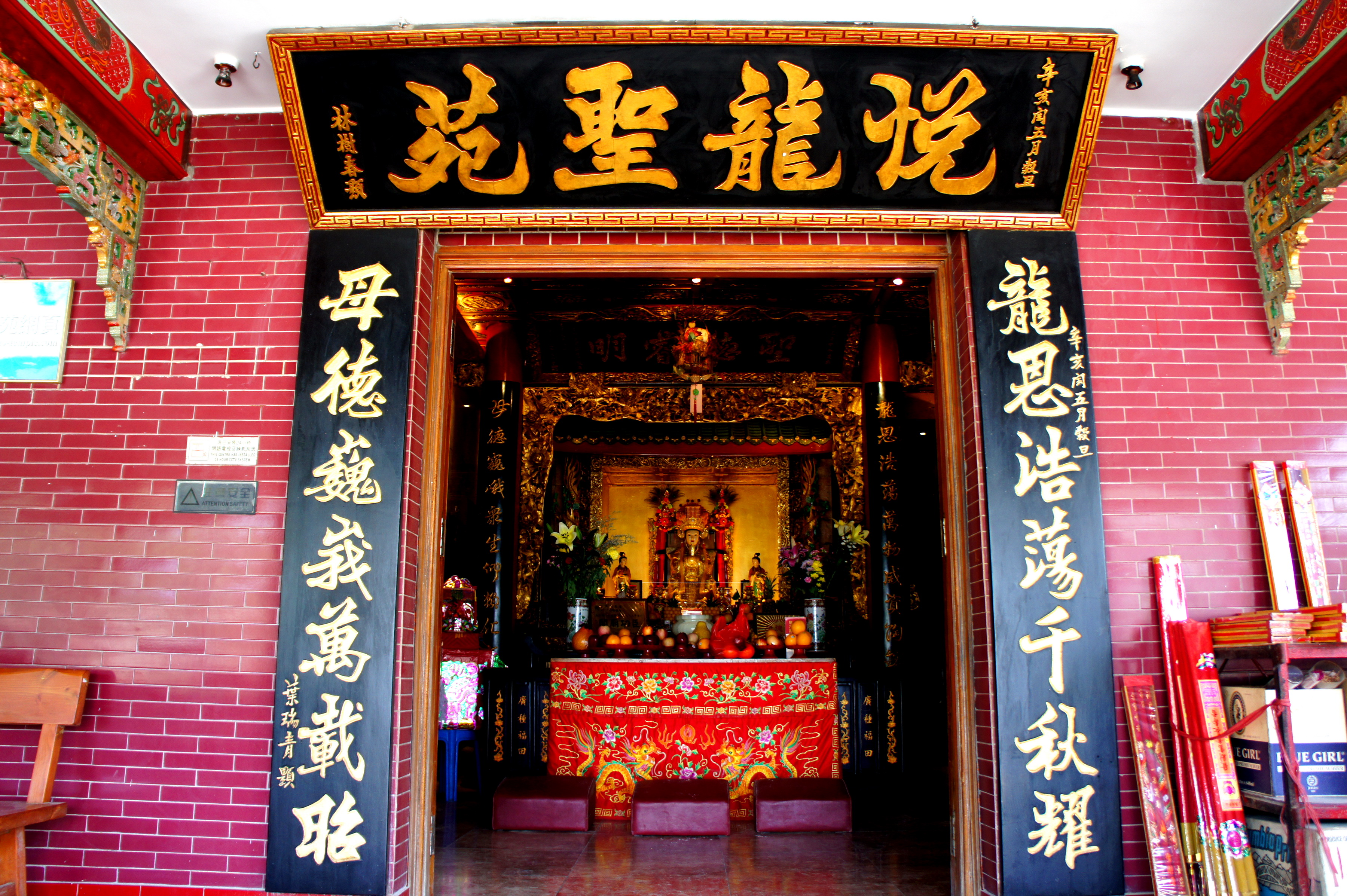 Lung Mo Temple, Peng Chau, Hong Kong.